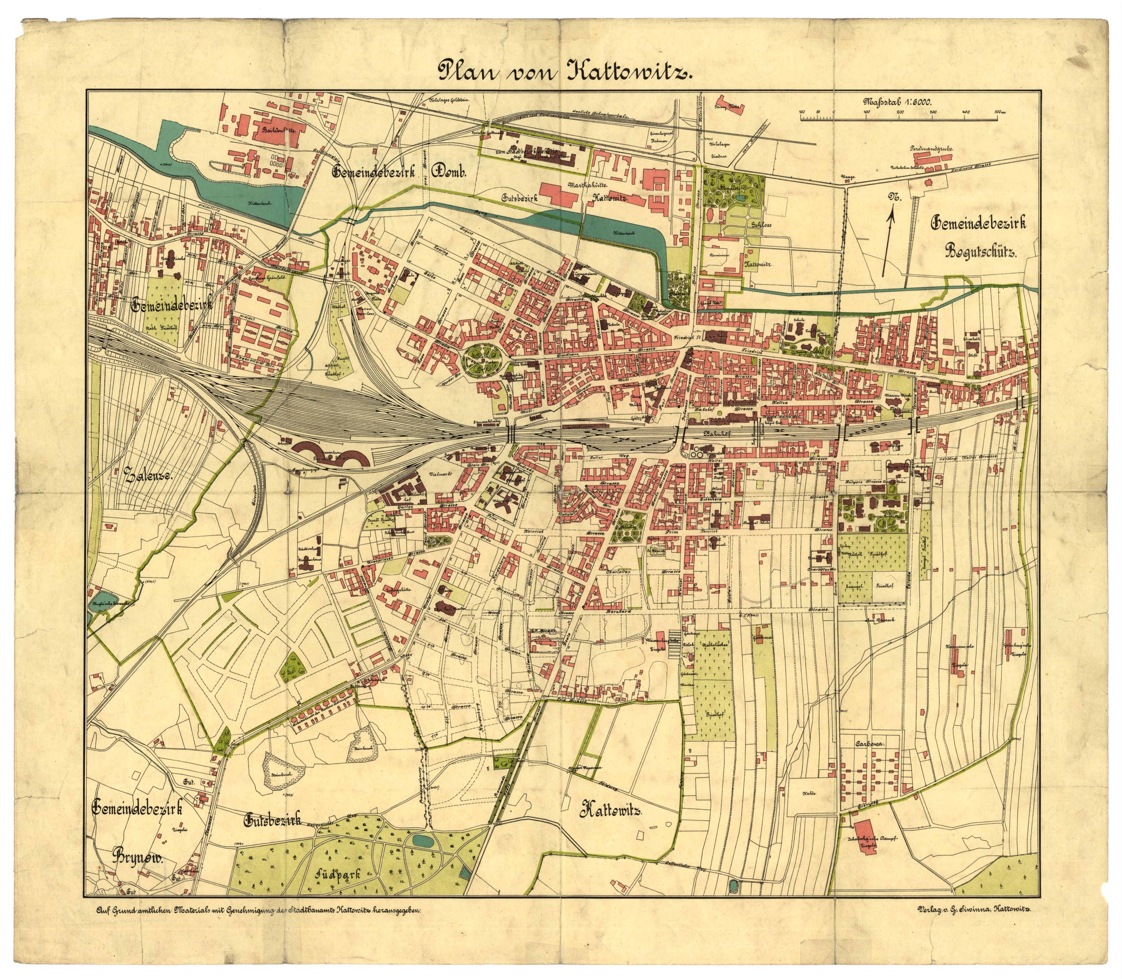 The map of Katowice from 1910 (at a scale of 1: 6 000). The collection of the State Archives in Katowice.